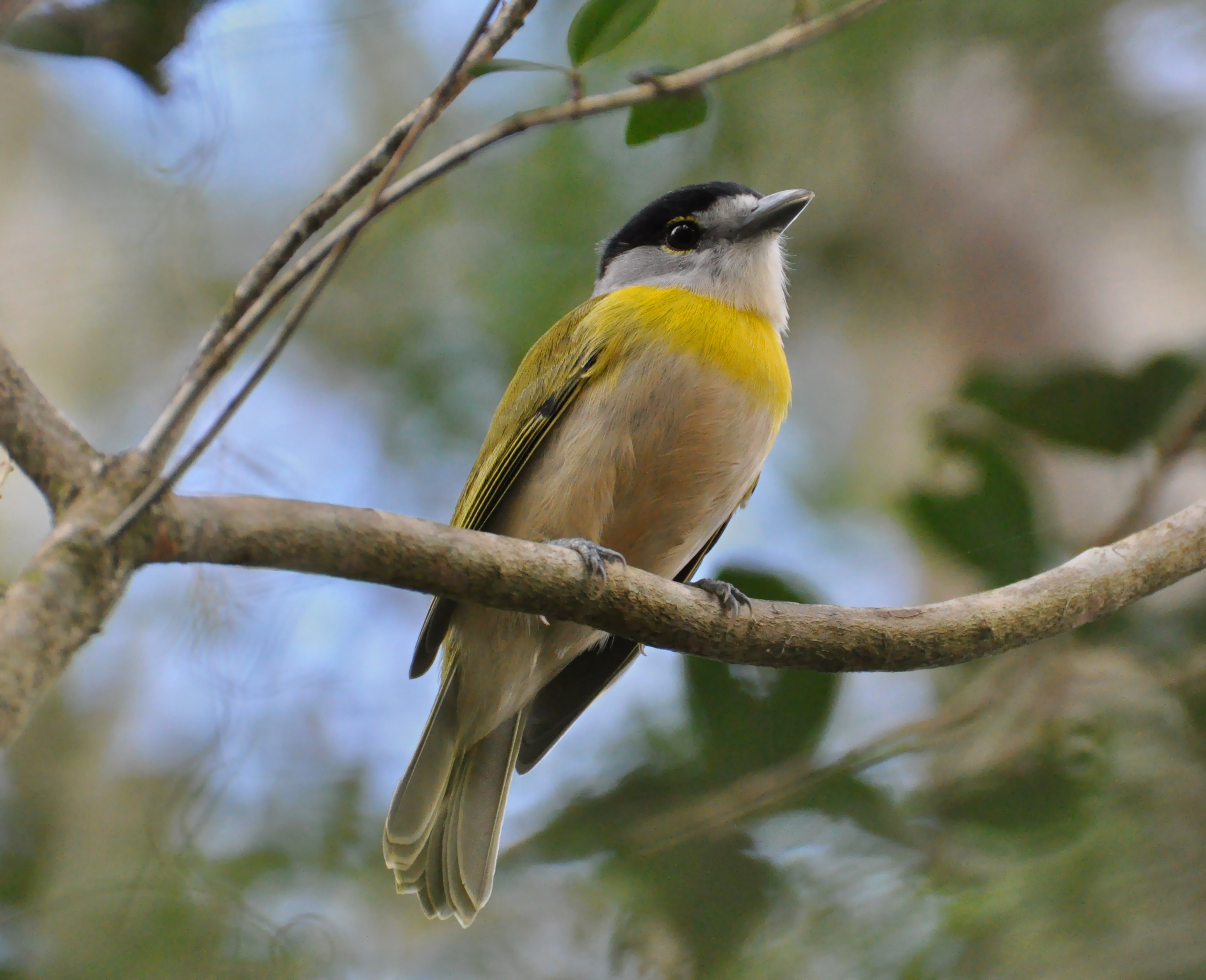 Pachyramphus viridis subsp. viridis male photographed in Rio Grande do Sul, Brazil, in June 2010.